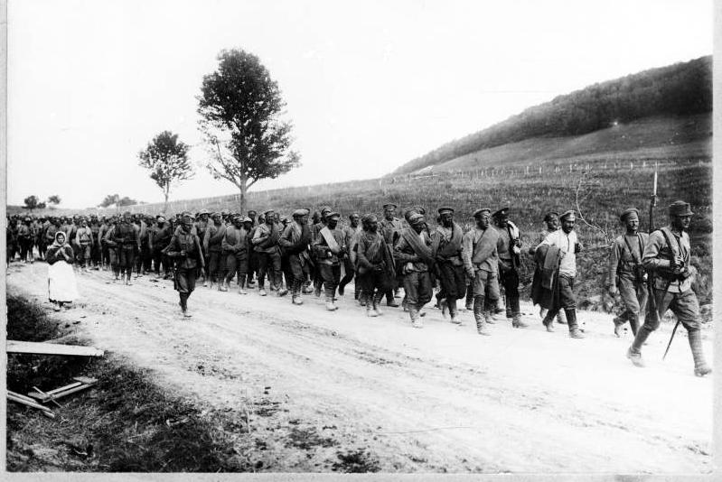 Russian POW's of World War I